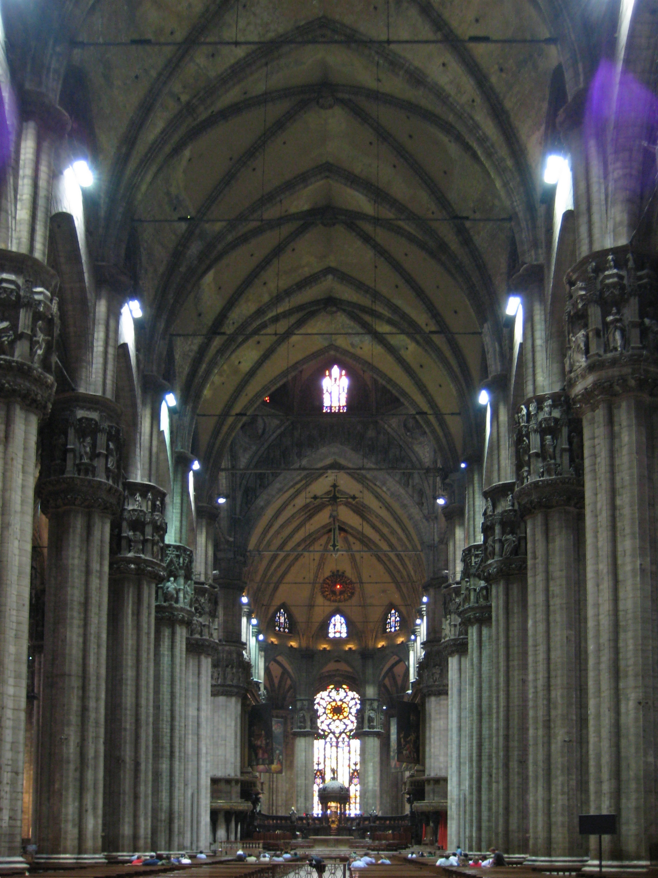 Interior of the Milan Cathedral, main nave